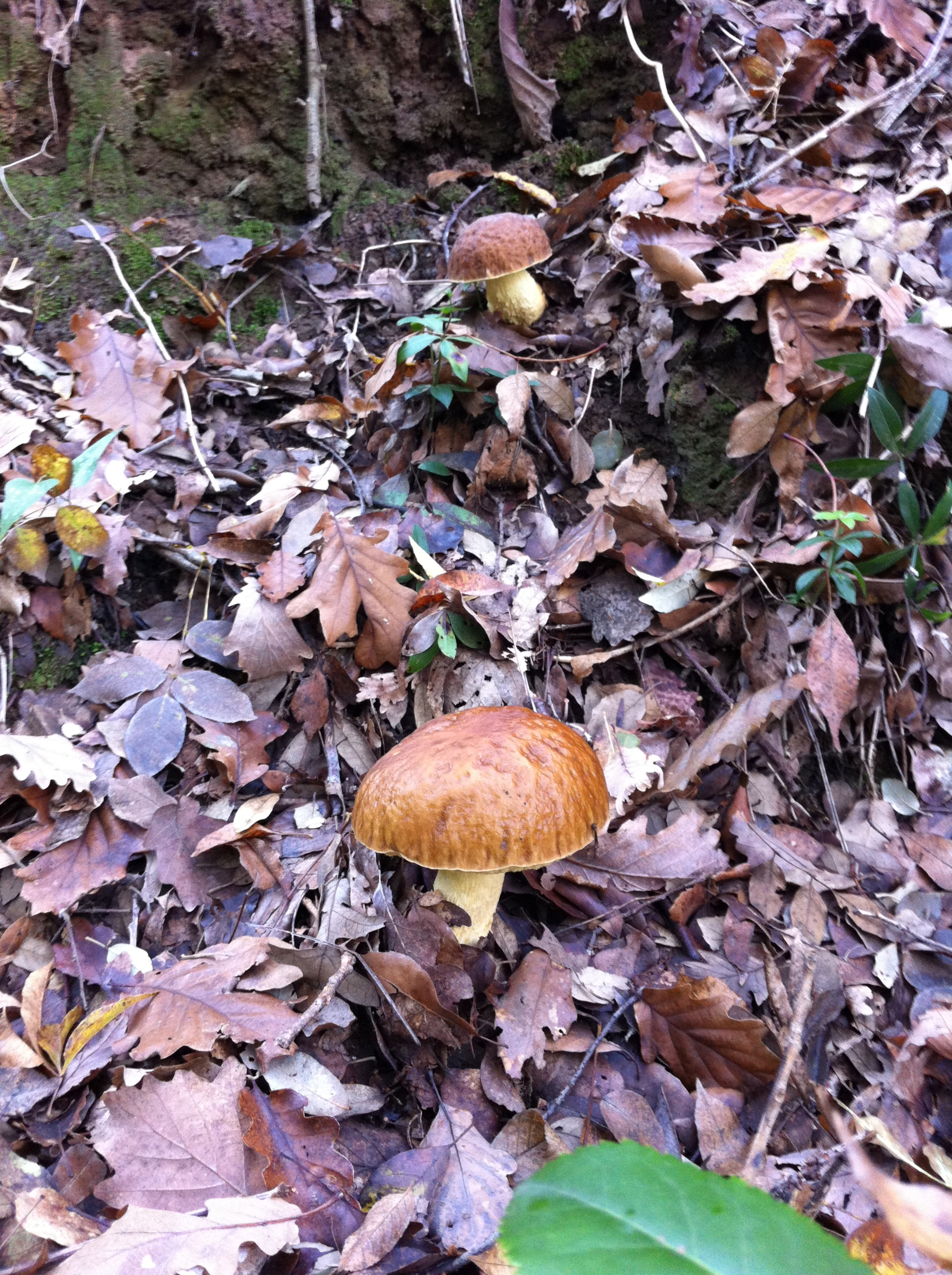 Leccinum